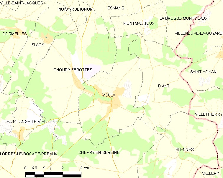 Map of French municipality Voulx